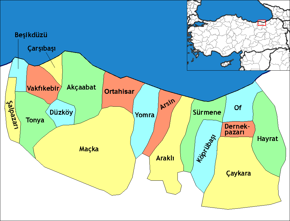 Map of the districts of Trabzon province in Turkey. Created by Rarelibra 17:52, 4 December 2006 (UTC) for public domain use, using MapInfo Professional v8.5 and various mapping resources. Edited by One Homo Sapiens Corrected text where İ,Ş,ı,ğ,or ş occurs in name. Source: [statoids-com]. Increased font size and enhanced color differences among adjacent districts.